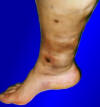 Necrosis post-sclerotherapy.